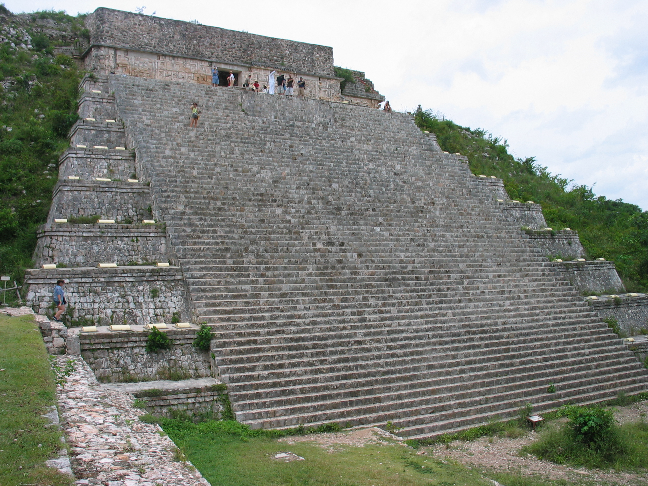 La Gran Pyramide (The Great Pyramid) at the Mayan ruins of Uxmal, Mexico.